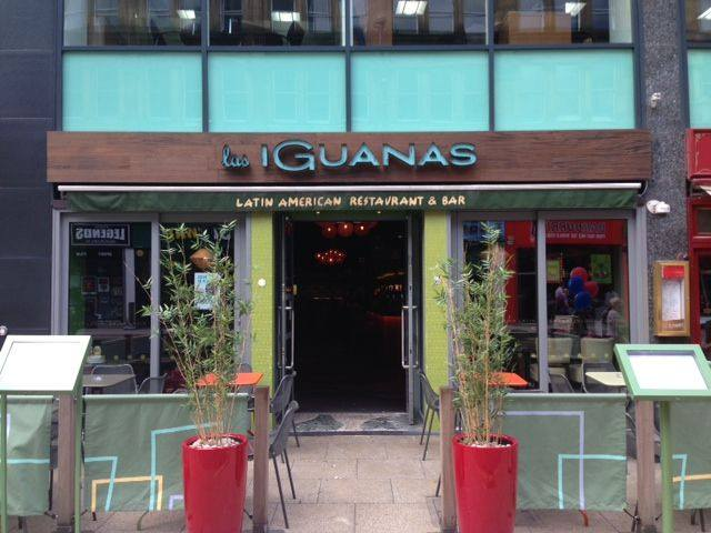 front view of Las Iguanas Deansgate